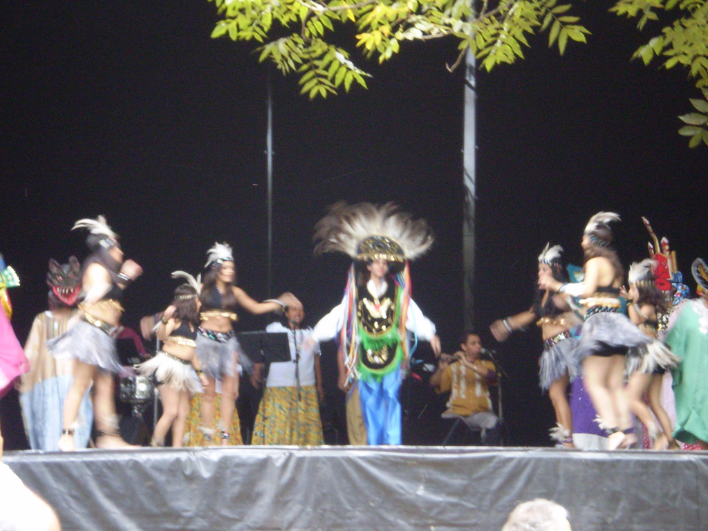 Play in square of São José dos Campos, São Paulo, Brazil.